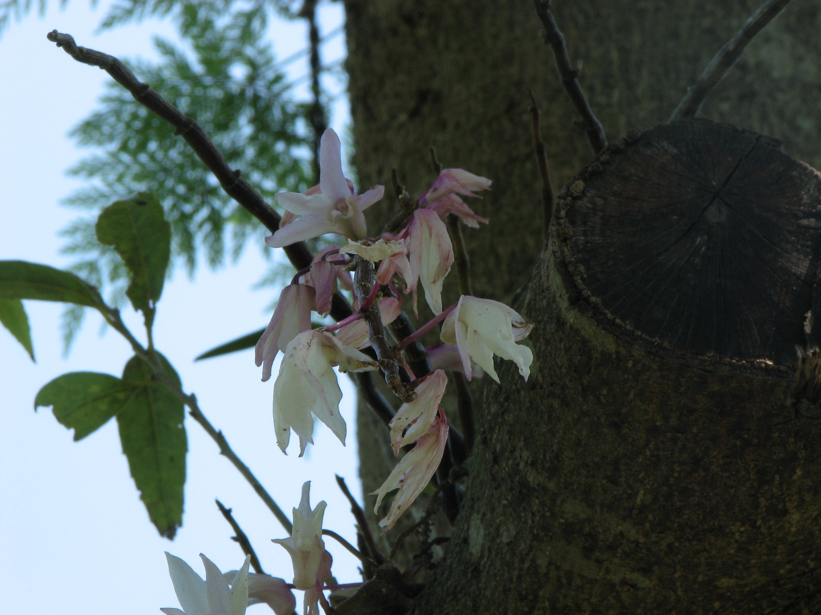 Dendrobium moniliforme at Tenjinbara botanical park (Shizuoka pref. Japan)